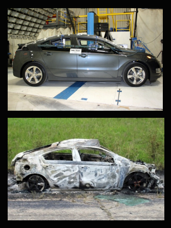 Chevrolet Volt before and after the pole test. The image below shows the Volt after the fire at MGA reported on June 6, 2011. NHTSA Report DOT HS 811 573, Figure 3.01